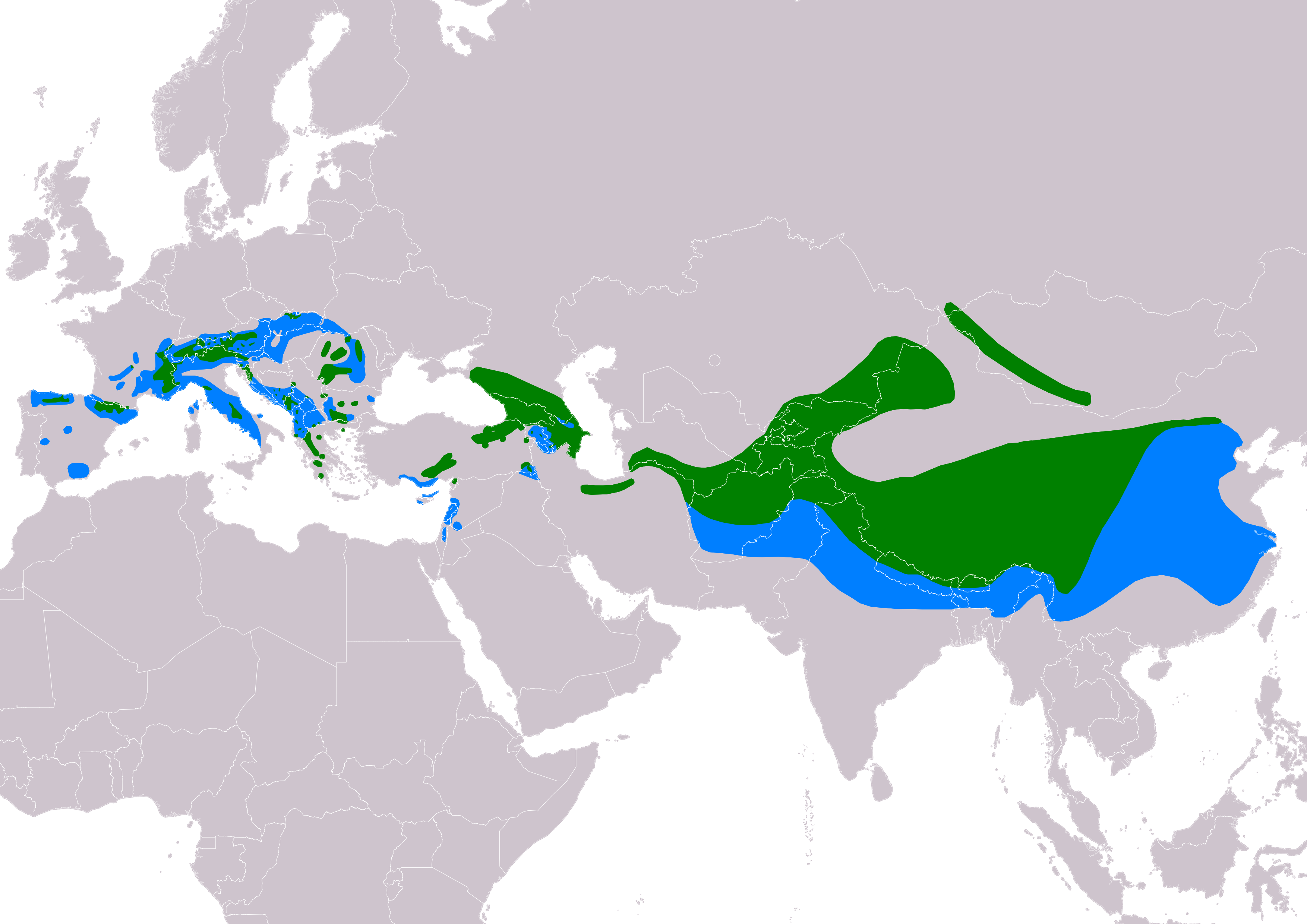 Distribution map of wallcreeper (Tichodroma muraria) according to IUCN version 2020.1 (Compiled by BirdLife International and Handbook of the Birds of the World (2019) 2019); key: Legend: Extant, resident (#008000), Extant, non-breeding (#007FFF)